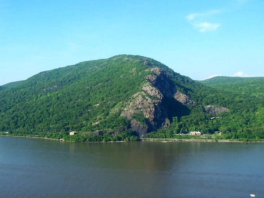 Breakneck Ridge, photographed from NY 218 on Storm King, across the Hudson River